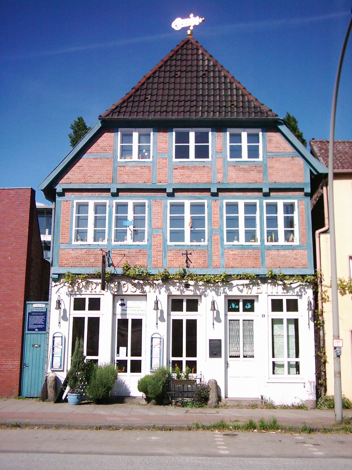 A house of 1645 in Hamburg-Harburg, Germany. See also Image:Bürgerhaus Karnapp5 02.jpg, Image:Bürgerhaus Karnapp5 03.jpg, Image:Bürgerhaus Karnapp5 04.jpg.